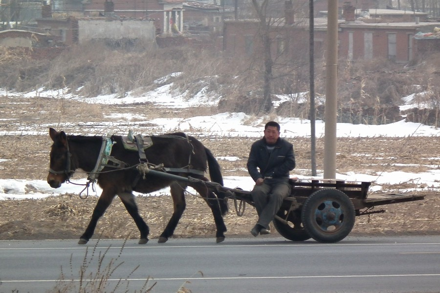 China's local area road picture. Horses are still active for transportion. In Tieling city, Liaoning province.